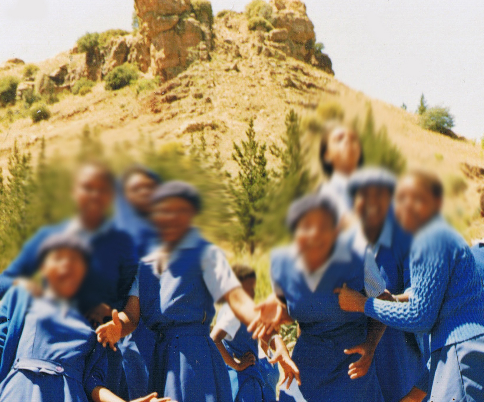 Thaba Bosiu, Rafutho's Pass with girl students (faces made unrecognisable)